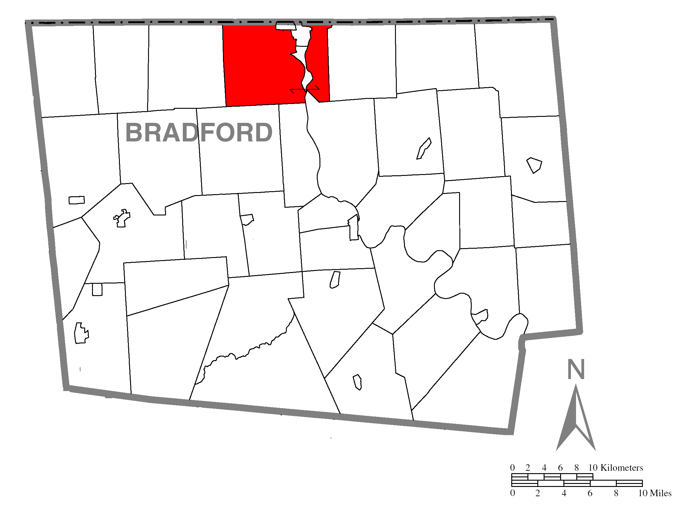 A map of Bradford County showing Athens Township, Pennsylvania (alternate) highlighted on the map.